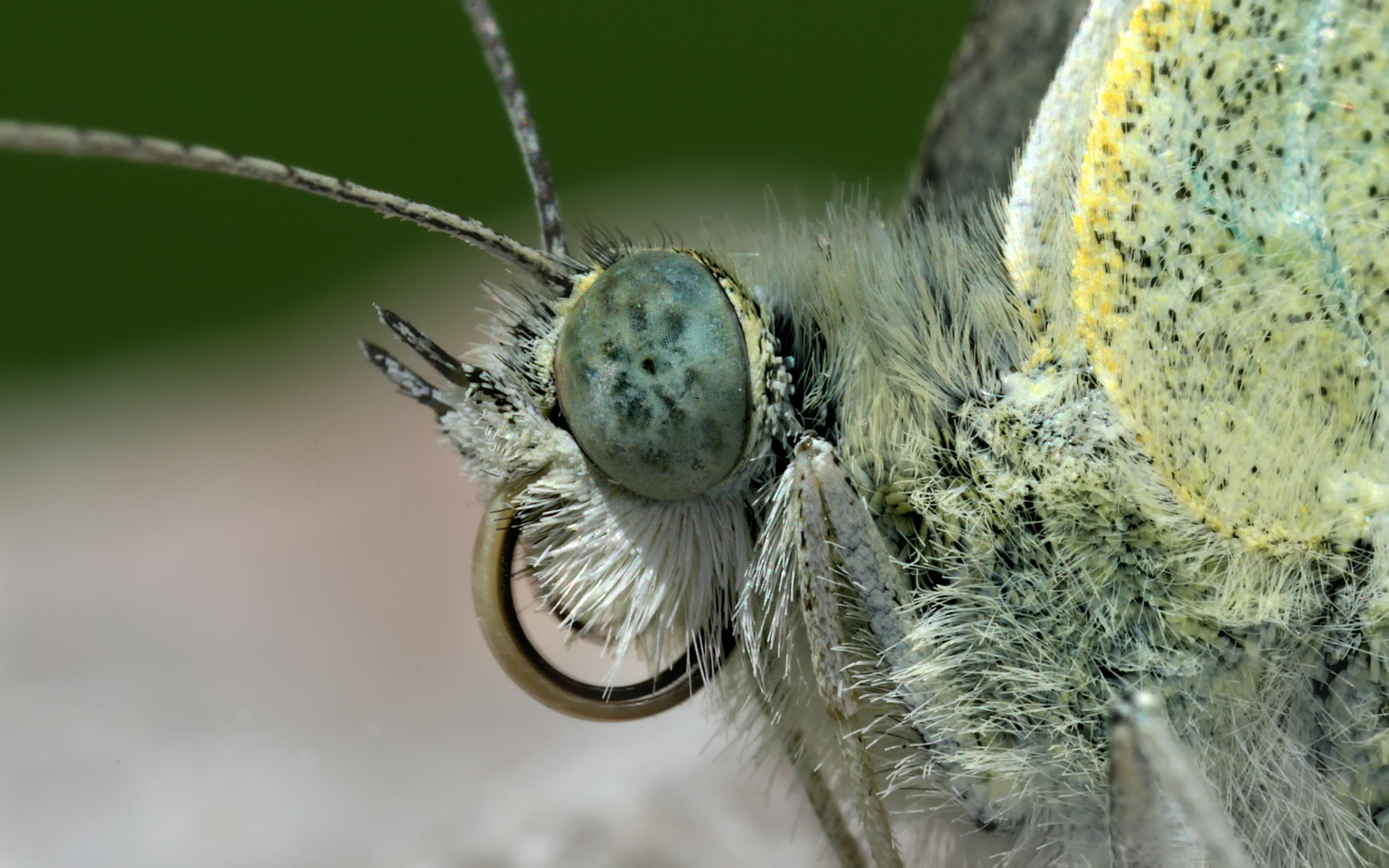 Description: The Small White (Pieris rapae) is a small to mid-sized butterfly species of the Yellows-and-Whites family Pieridae. It is also commonly known as the Small Cabbage White. The names "Cabbage Butterfly" and "Cabbage White" can also refer to the Large White.